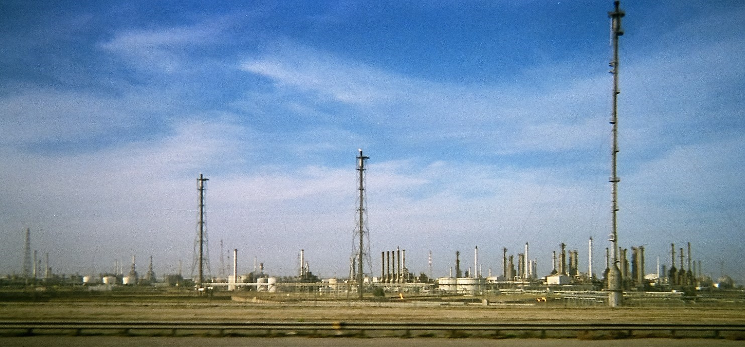 Kuwaiti oil field in Kuwait city limits as seen from shuttle bus on street